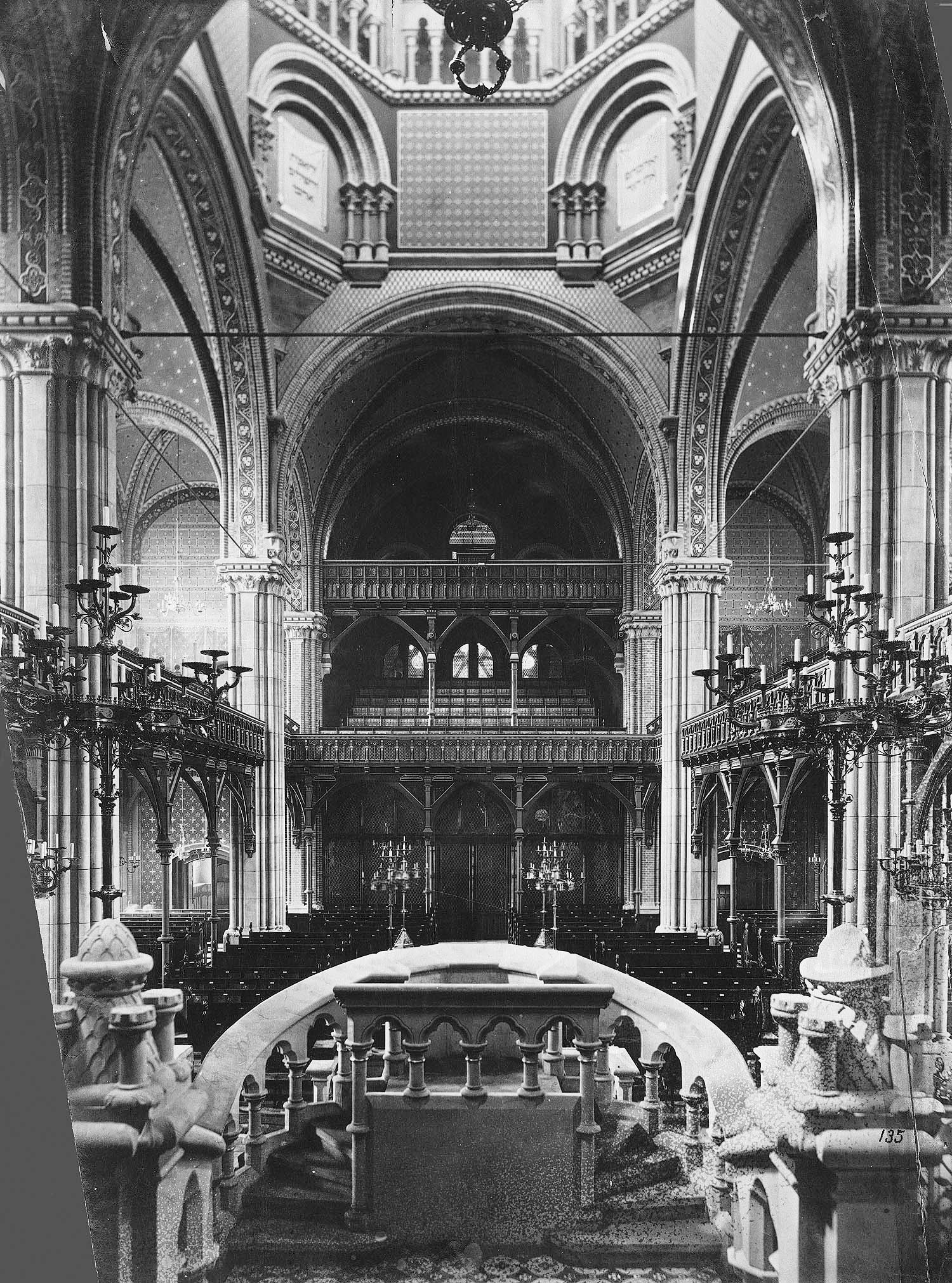 s